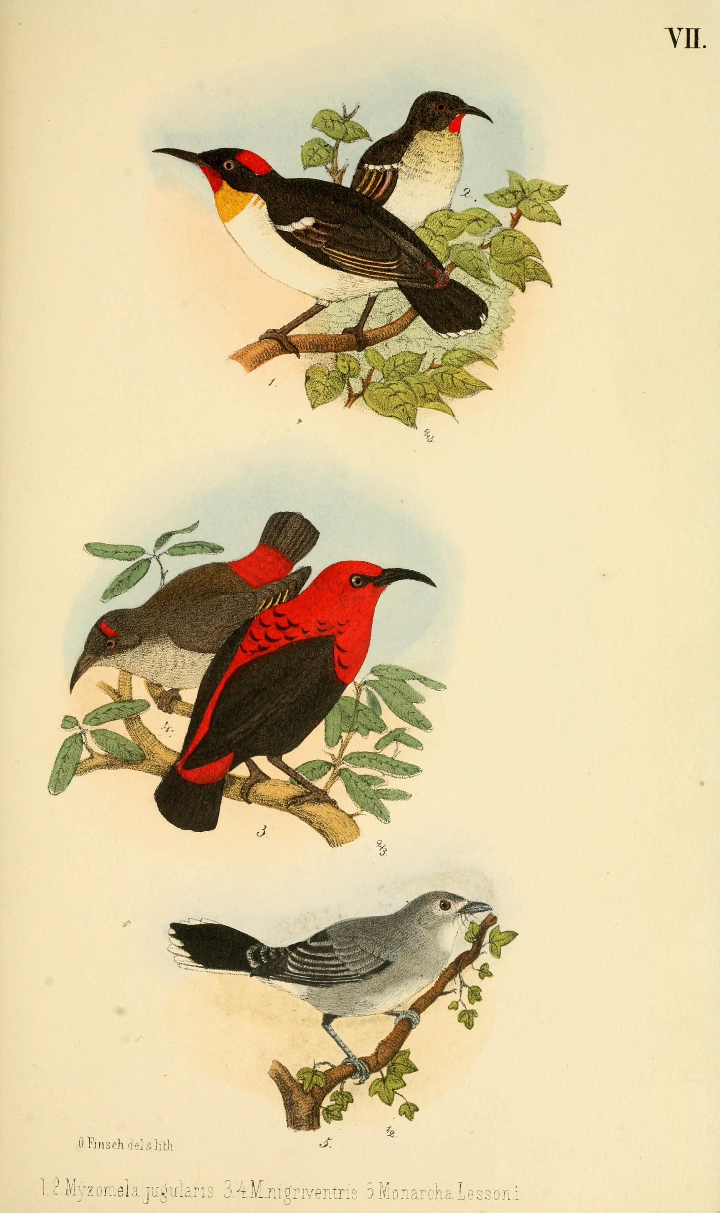 Hartlaub Finsch Beitrag zur fauna Centralpolynesiens. Ornithologie der Viti, Samoa und Tongainseln Plate 7 Figs. 1, 2 Myzomela jugularis Peale Valid name Myzomela jugularis Peale, 1848 Figs. 3, 4 Myzomela nigriventris Peale Valid name Myzomela cardinalis nigriventris Peale, 1848 Fig. 5 Monarchia Lessoni Valid name Mayrornis lessoni (Gray,1846)